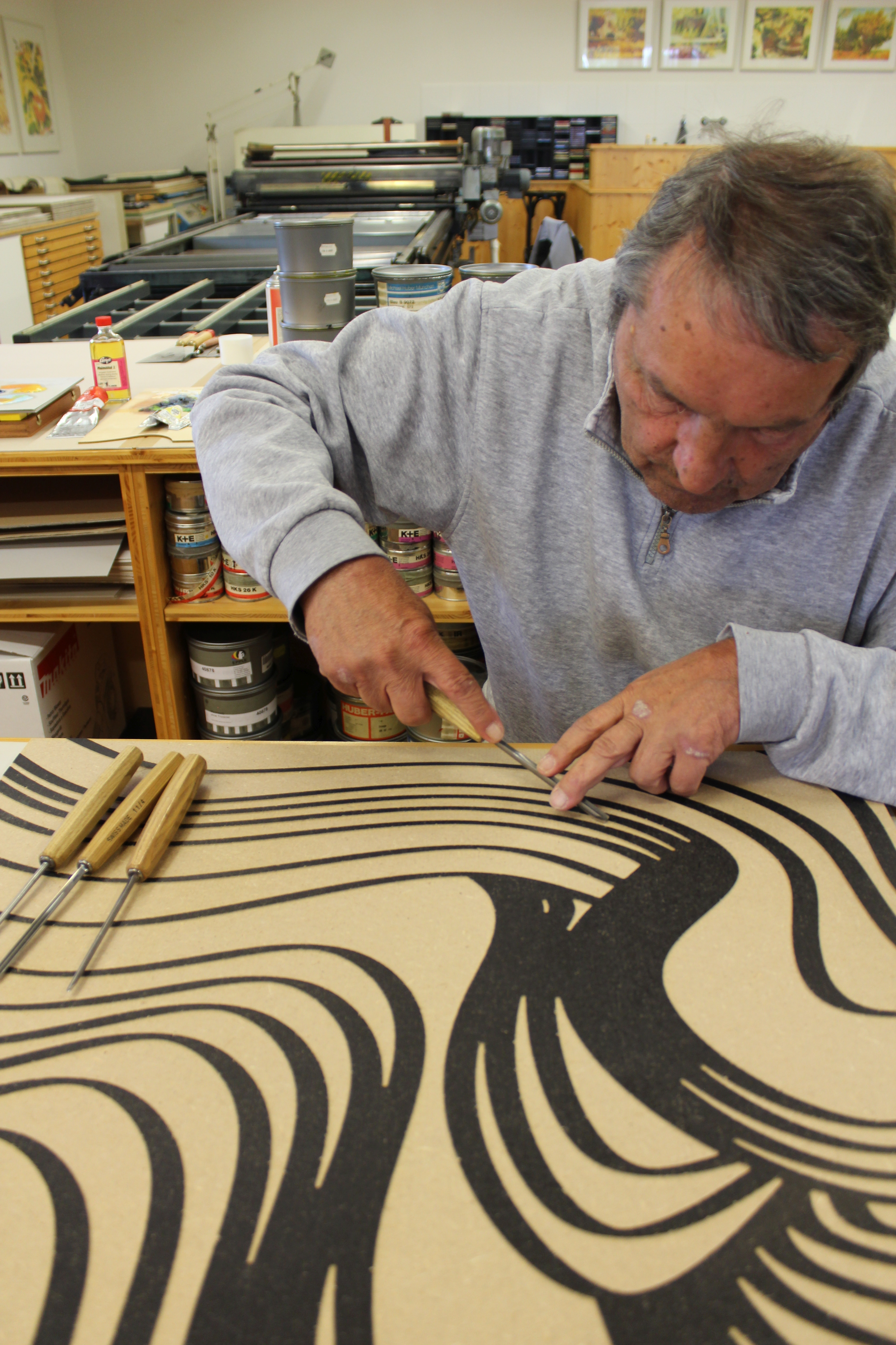 German artist Joachim Feldmeier